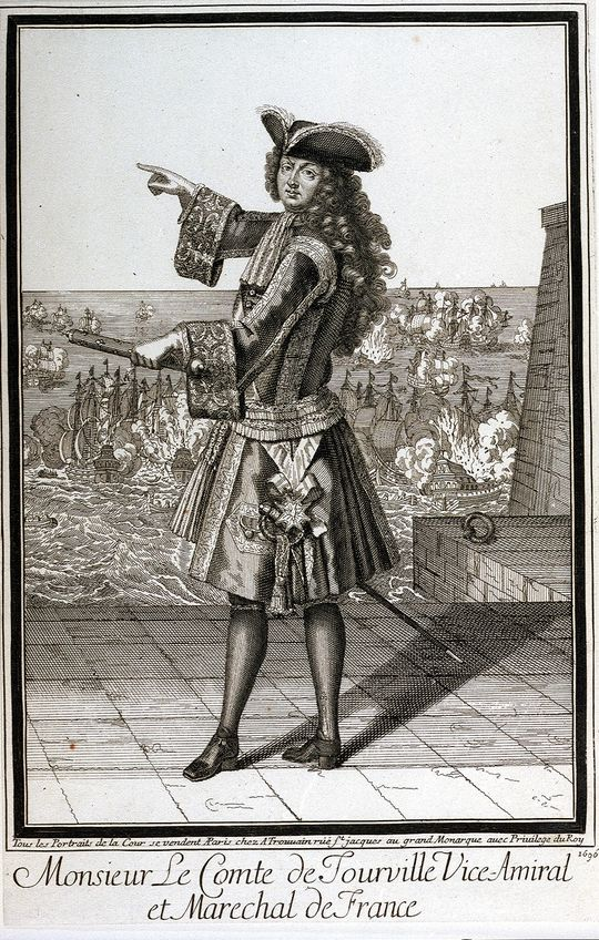 Allegorical Portrait of the Count de Tourville, the principal chief of the navy of Louis XIV in the 1690s.